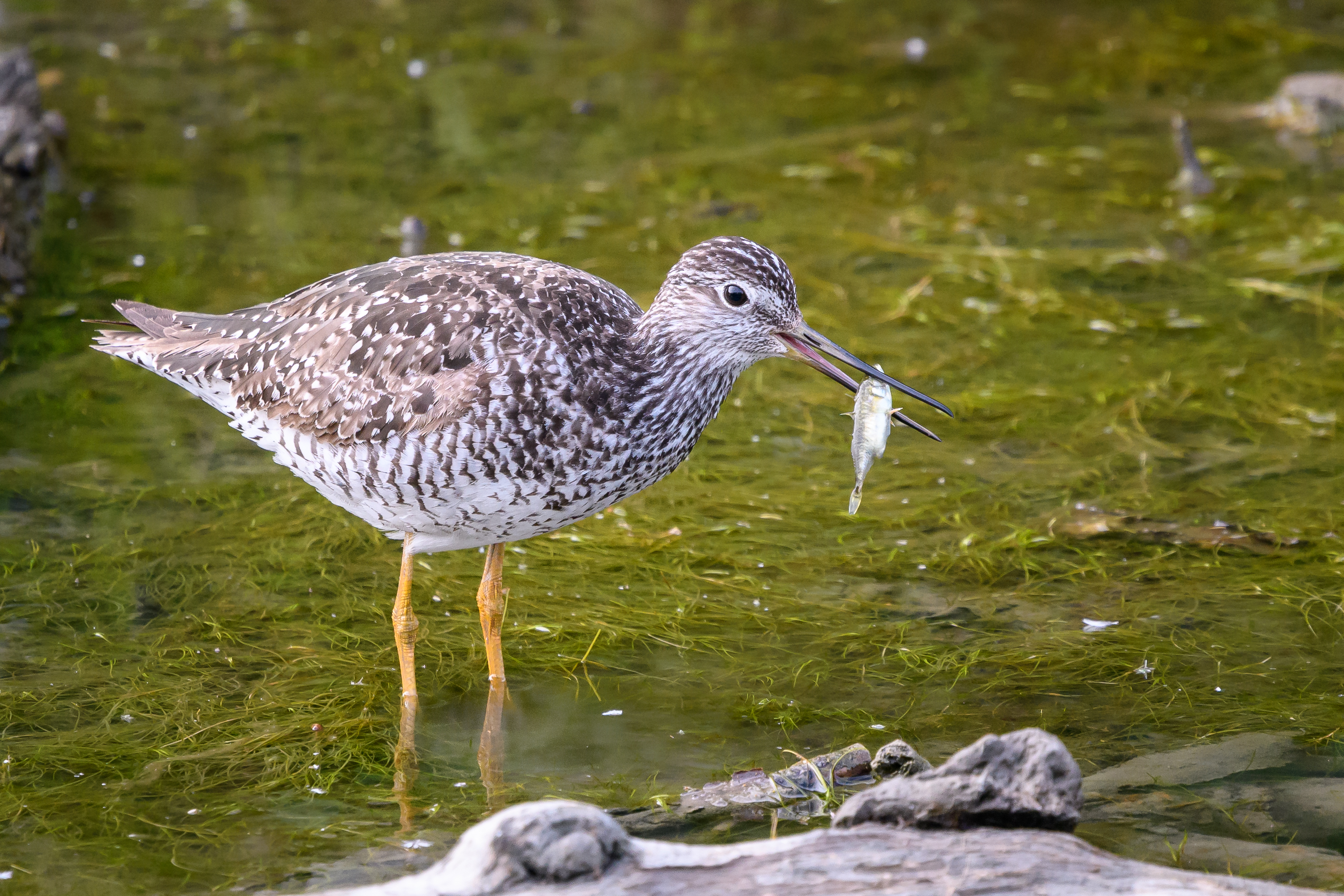 Tony Knowles Coastal Trail, Anchorage, Alaska